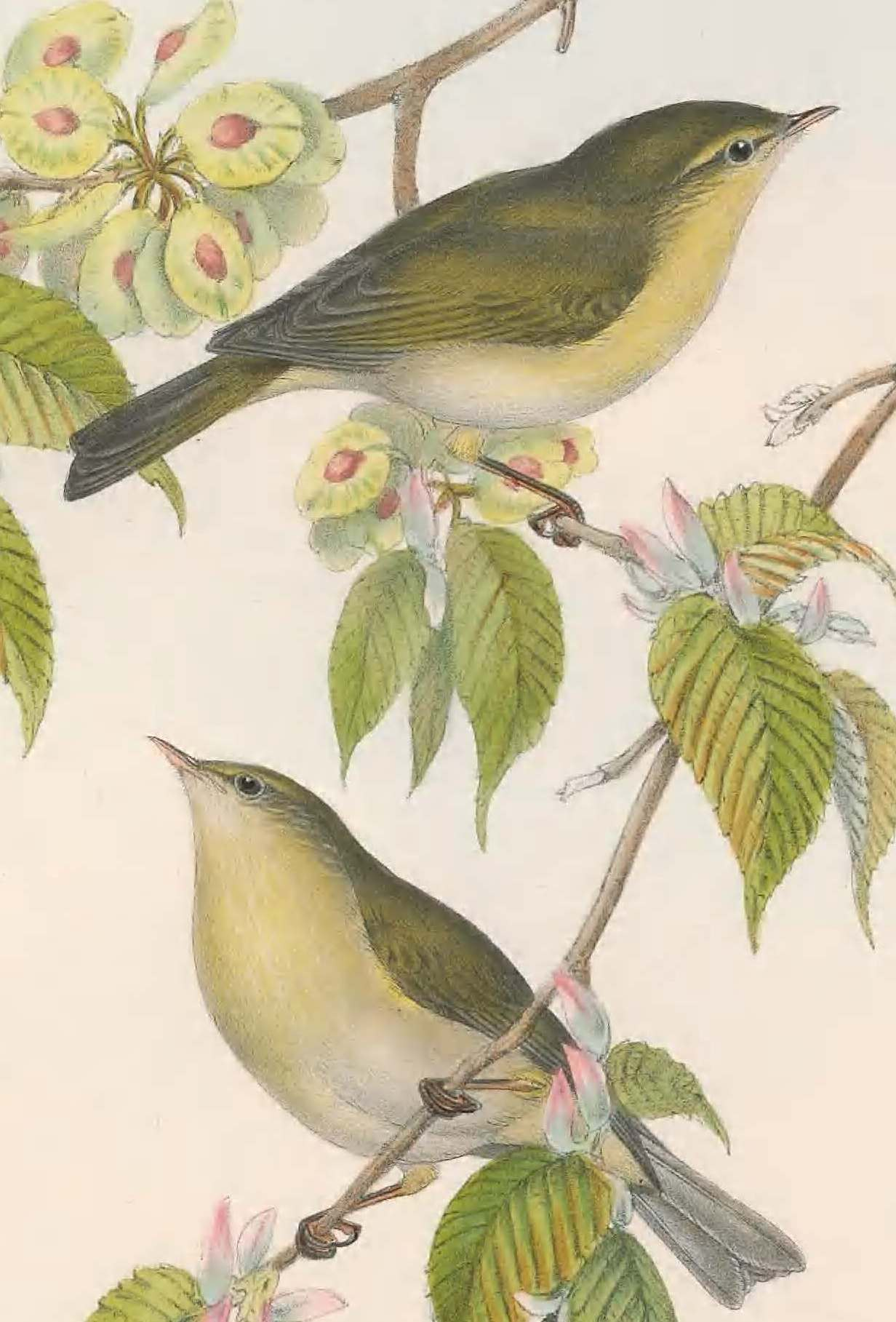 Phylloscopus collybita. John Gould. Great Britain